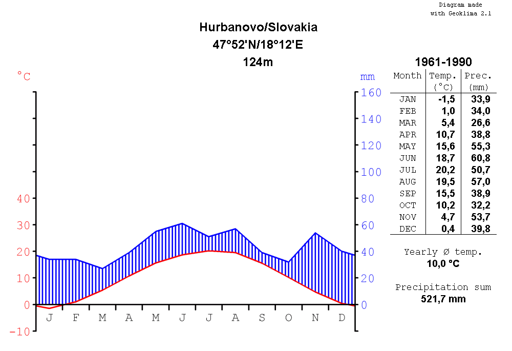 climate chart of Hurbanovo, Slovakia, for the period of time from 1961 to 1990, in the format by Walter and Lieth, metric, °Celsius and millimeters, chart made with Geoklima 2.1, label in English